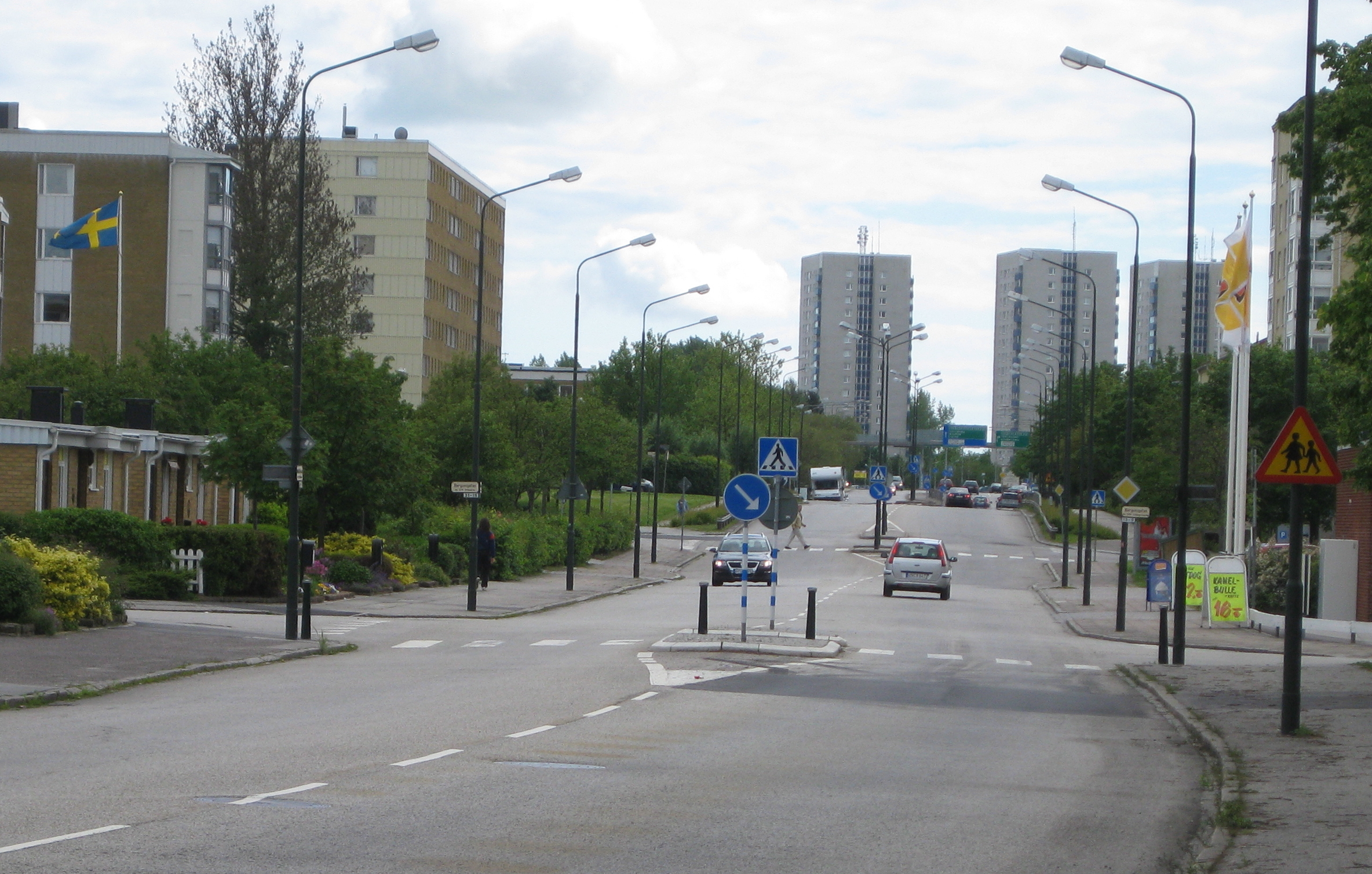 Munkhättegatan in Malmö, Skåne, Sweden.